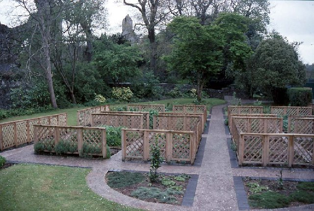 Greyabbey: the herb garden. The abbery is visible beyond this modern recreation of a mediaeval monastic herb garden.